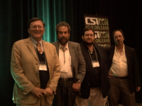 L-R Ted Goertzel, David E. Thomas, Bob Blaskiewicz, and Scott O. Lilienfeld, at CSICON Conspiracy Theories - Q&A Session